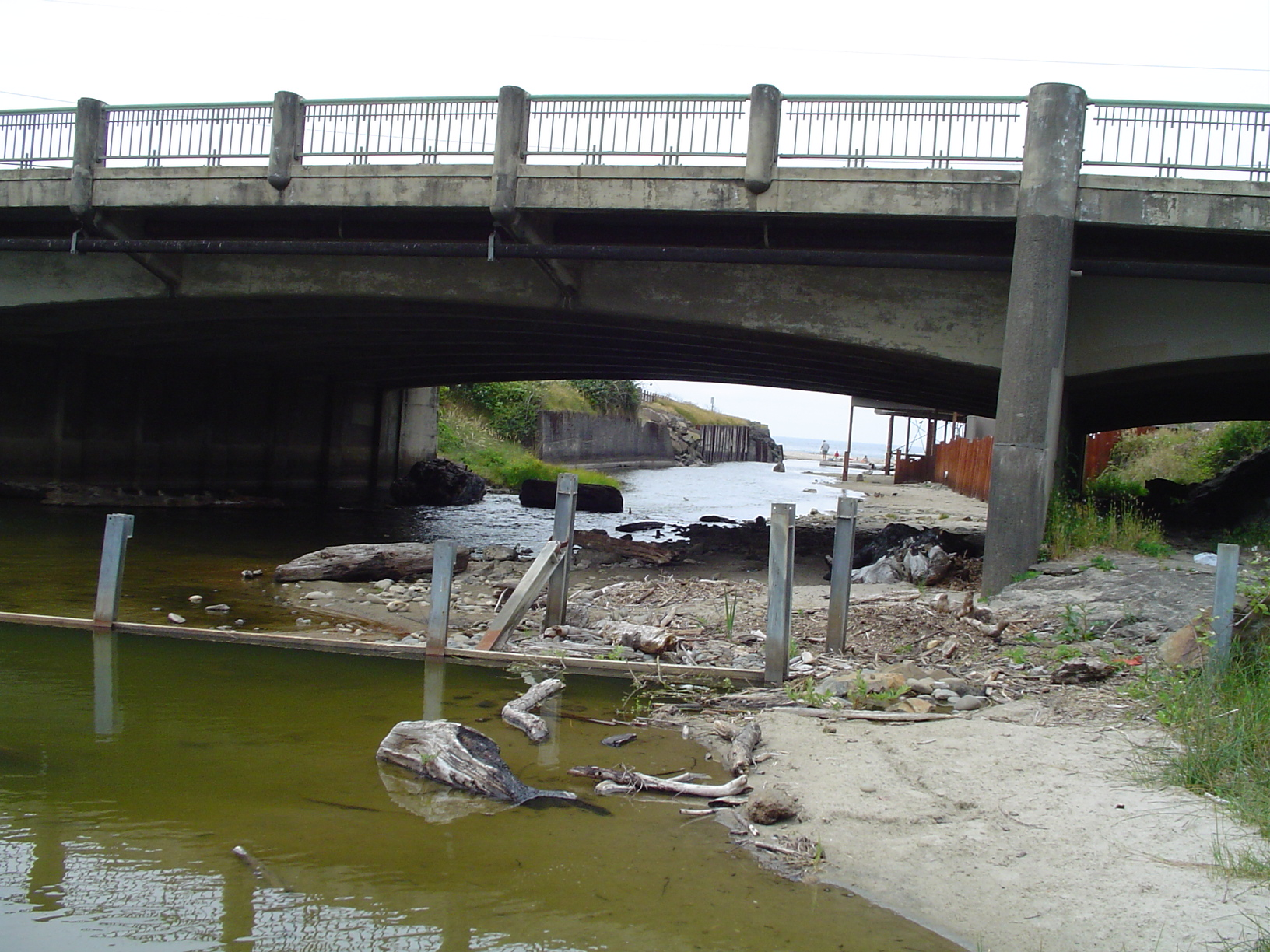 D River, Lincoln City, Oregon